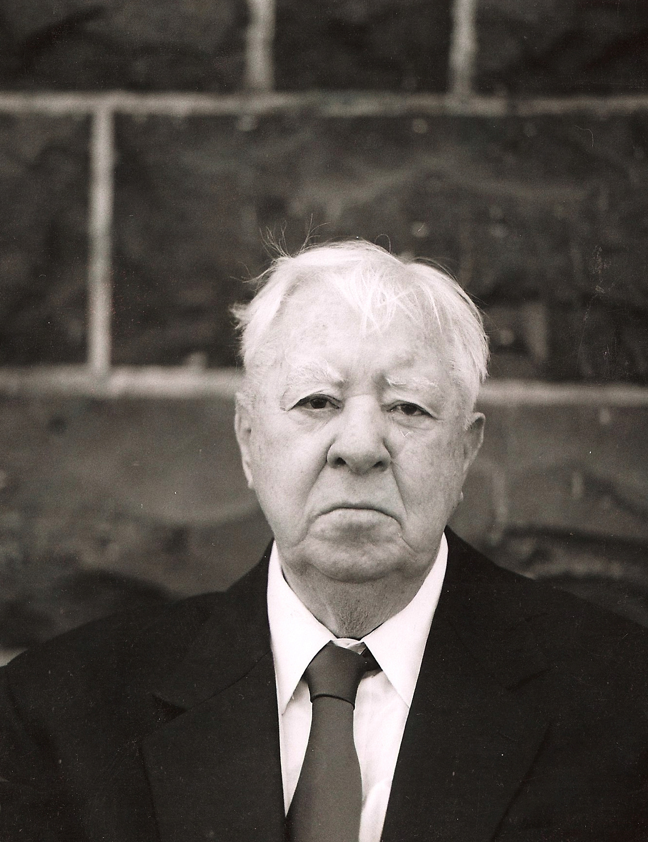 Billy Longley at Pentridge Prison H Division Yard. By Rupert Mann.